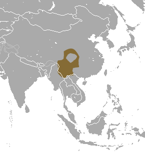 Long-tailed Mole (Scaptonyx fusicaudus) range